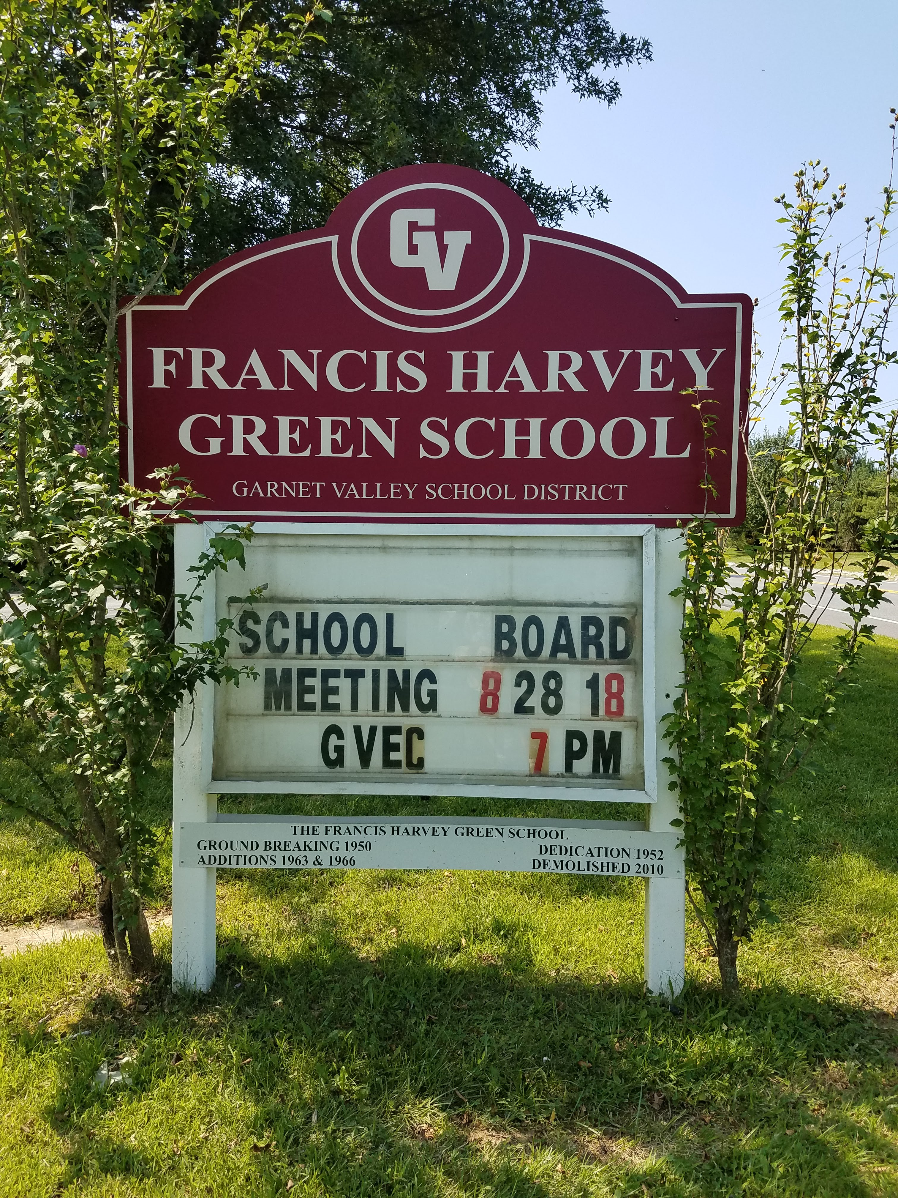 Francis Harvey Green School sign. Photo taken in August 2018